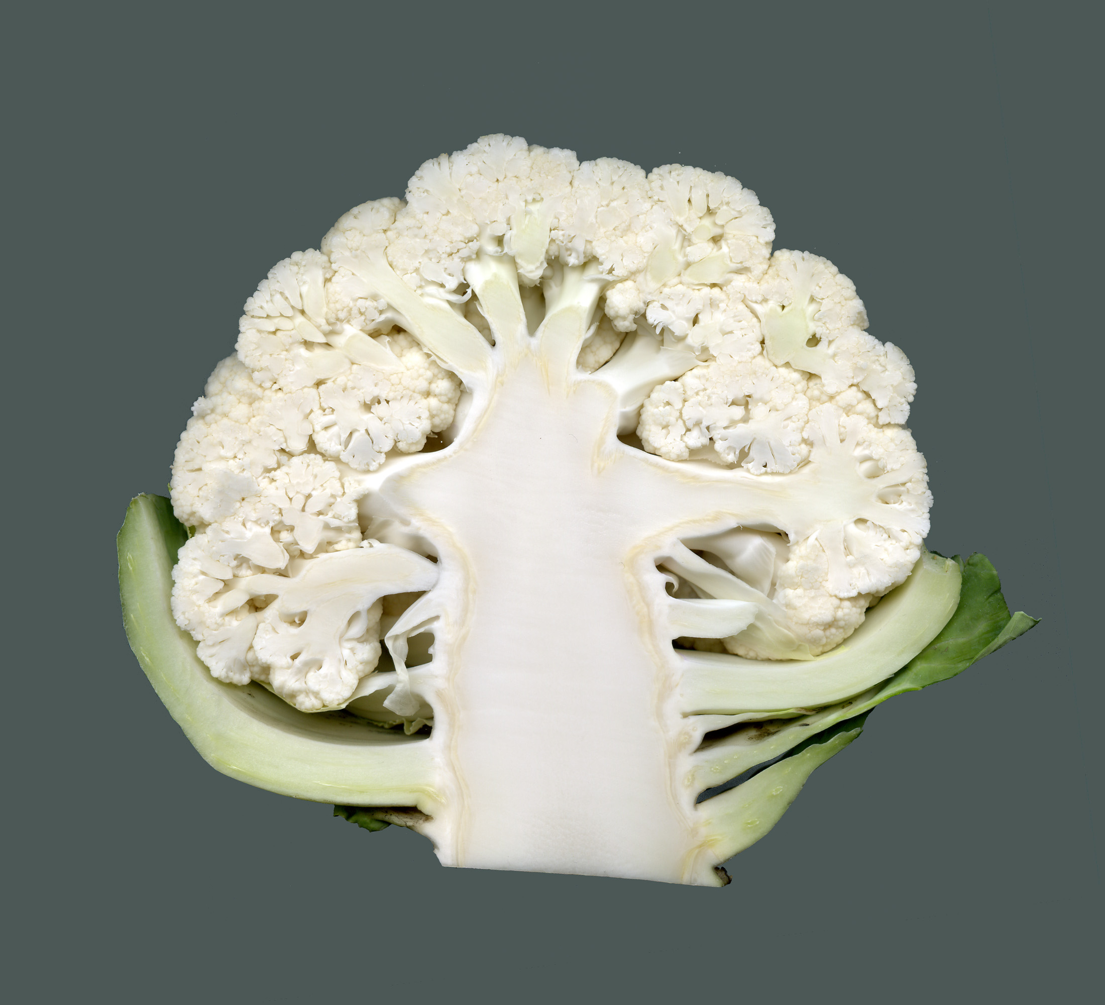 Cauliflower, longitudinal section